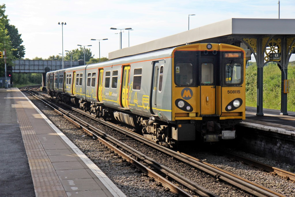 Merseyrail Class 508, 508115, Birkenhead North railway station